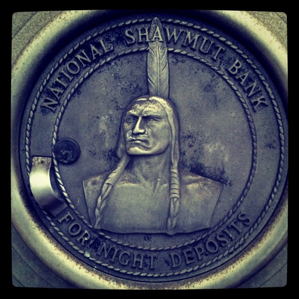 Deposit box for the former National Shawmut Bank, which became FleetBoston Financial, only to become part of Bank of America. Taken in Boston.